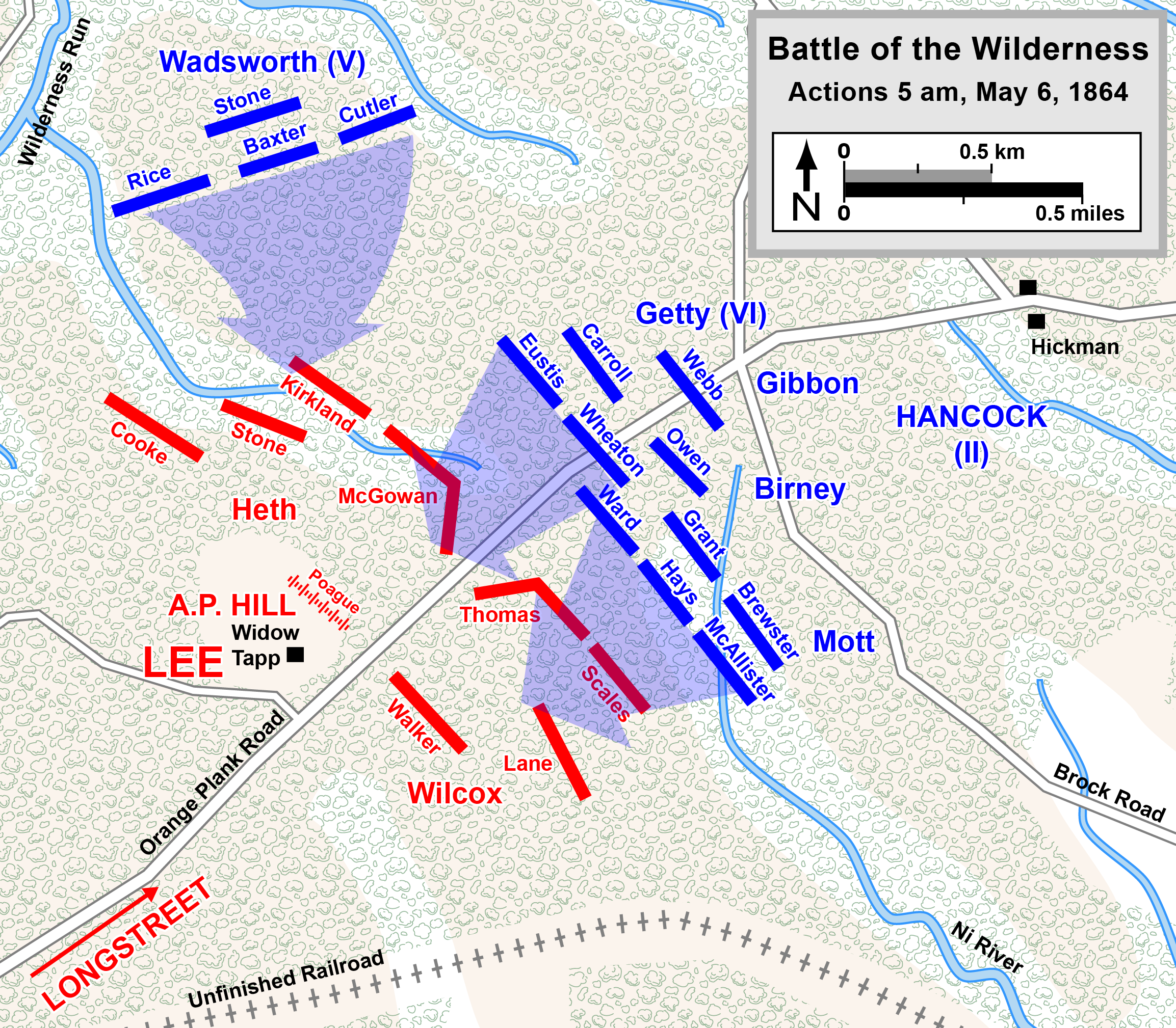 Map of a portion of the Battle of the Wilderness of the American Civil War. Drawn in Adobe Illustrator CC 2015 by Hal Jespersen. Graphic source file is available at